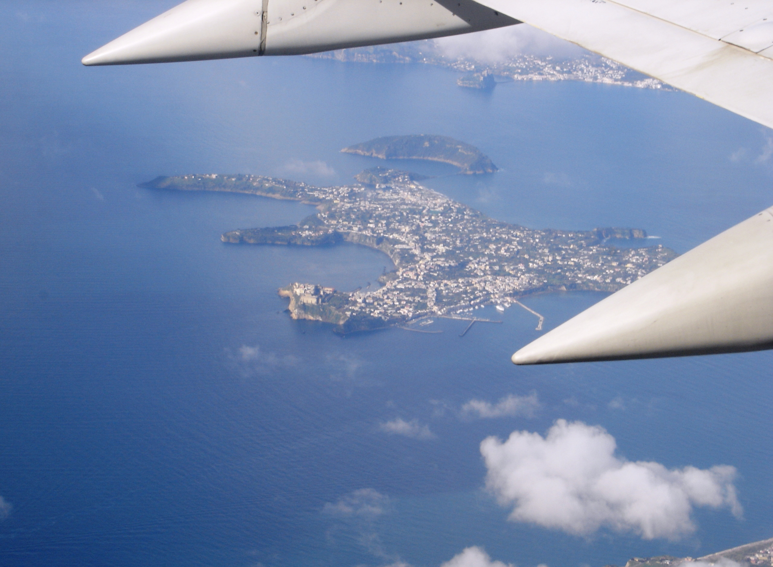 Views of Procida and Vivara - photo by Luigi and utente:Retaggio